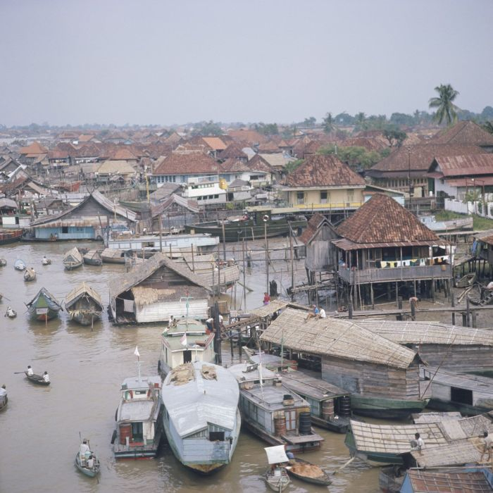 View over Palembang and the Musi river